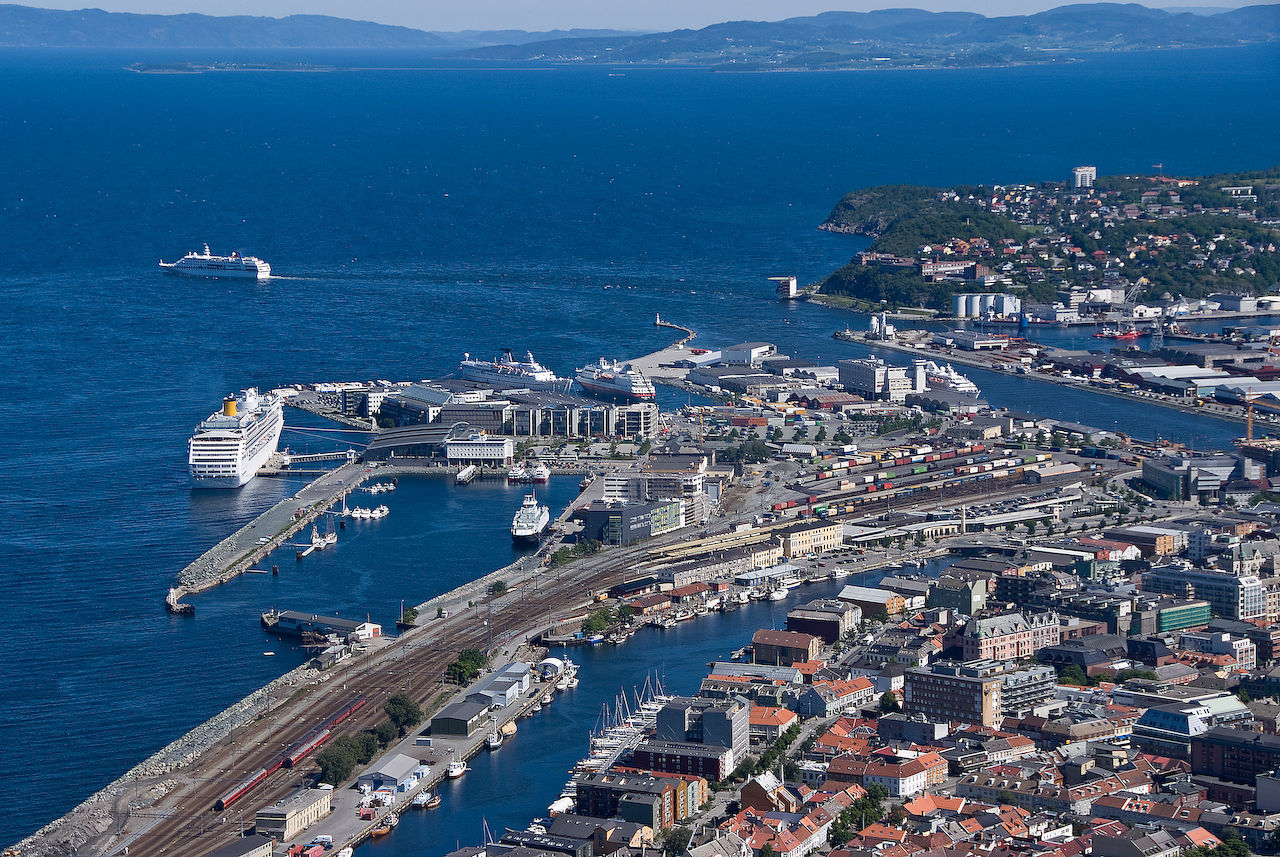 Trondheim fra sentrum mot Brattøra. Trondheim, Norway, facing East from the city centre towards the harbour.